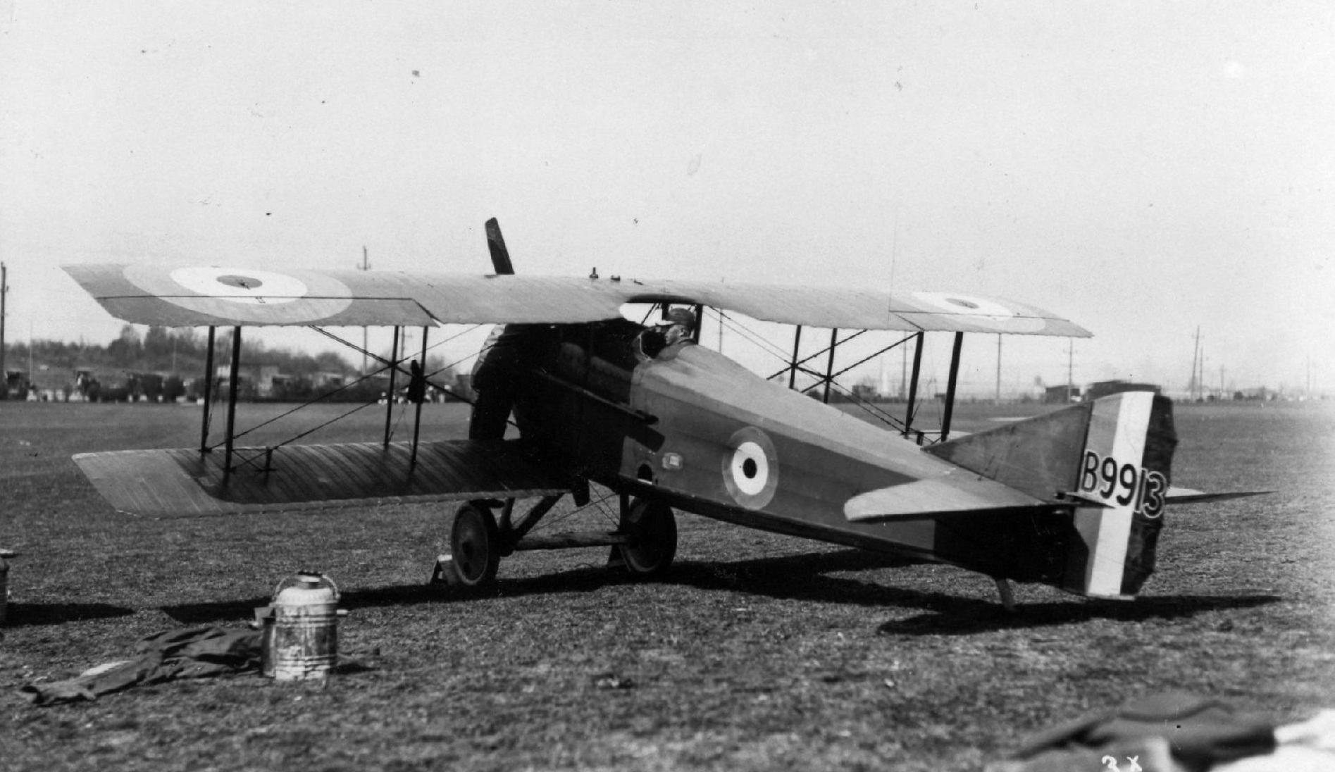 SPAD VII.